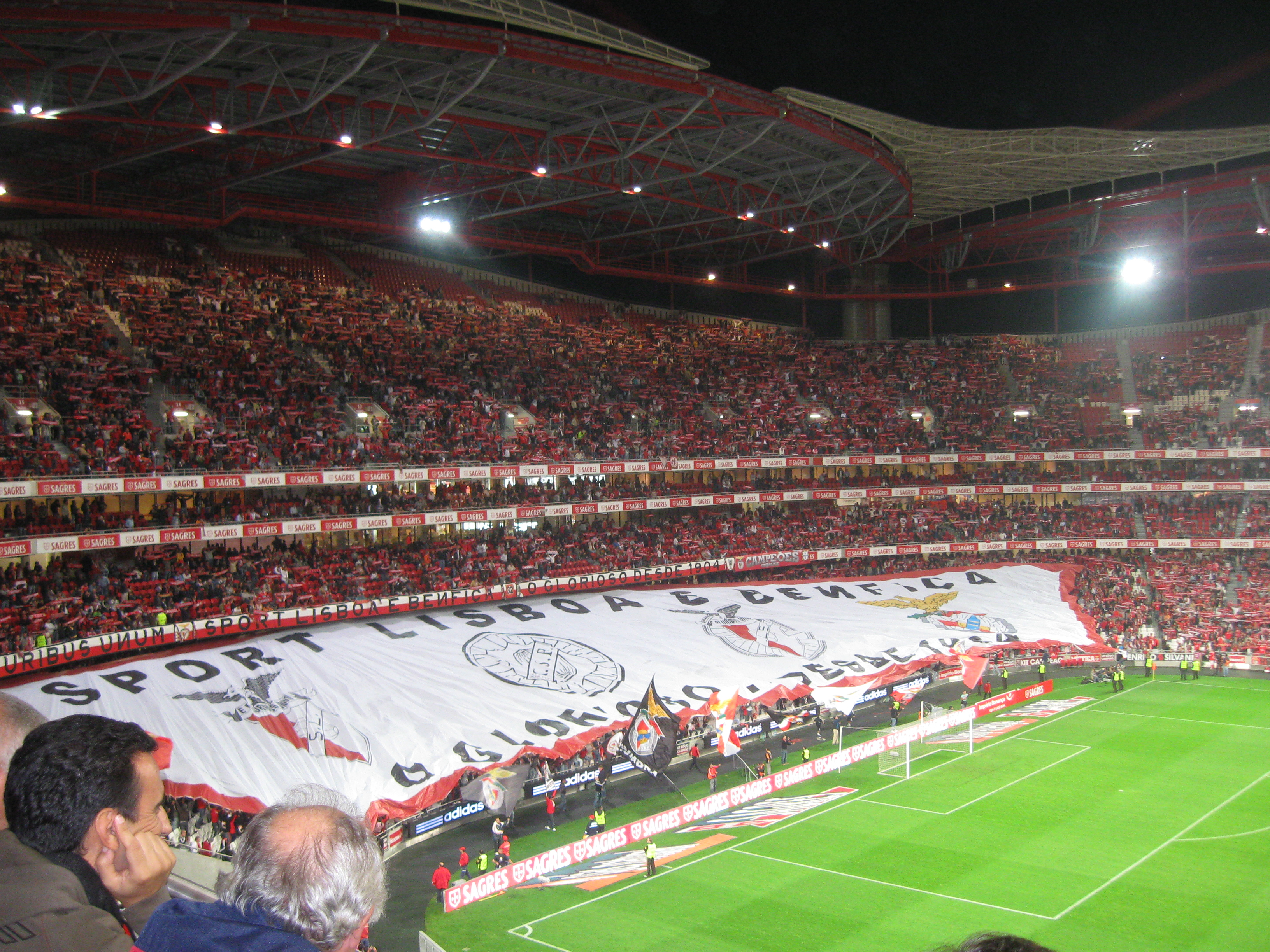 Benfica fans at the start of the match